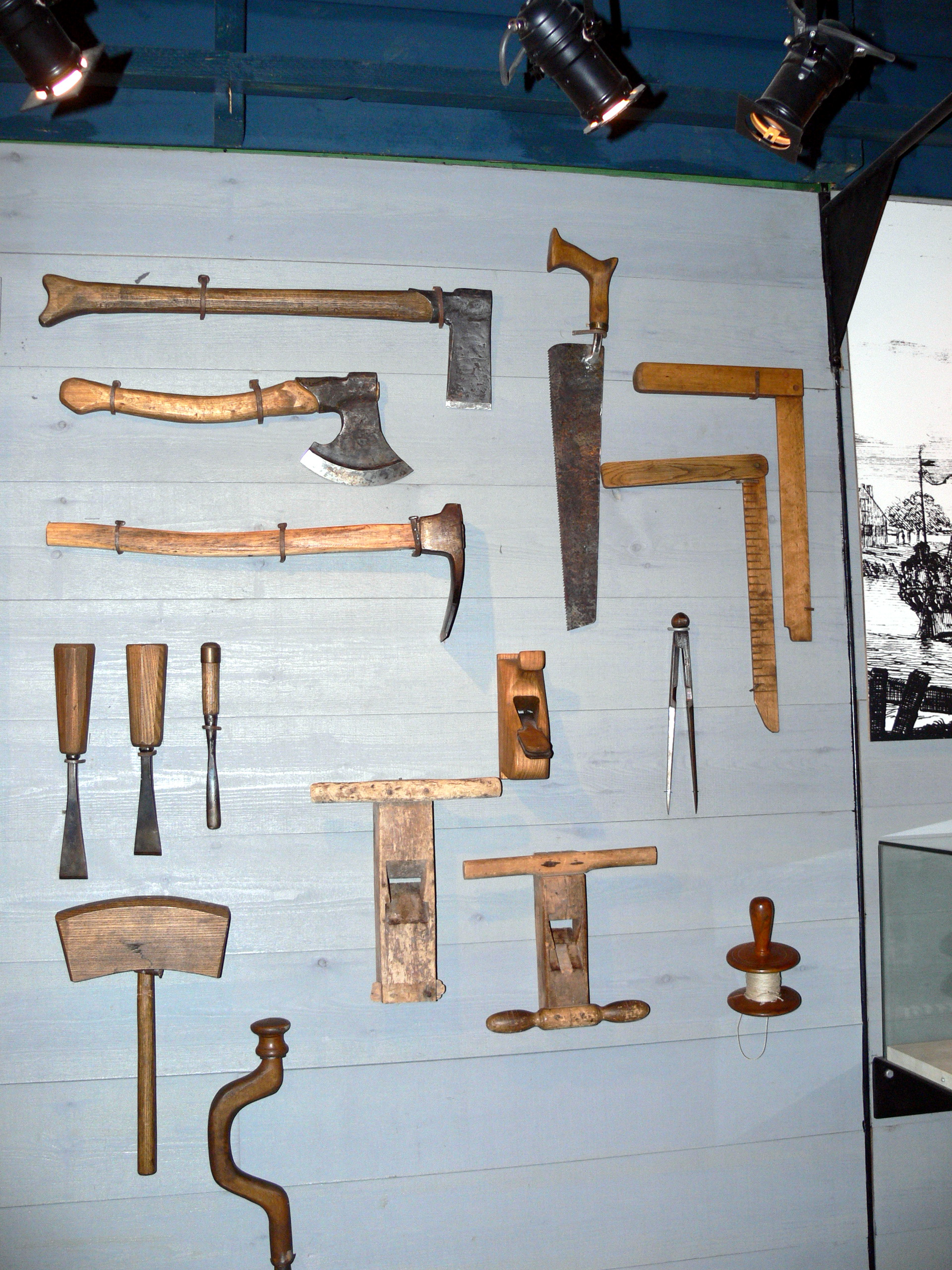 Vasa ship ( 1627 ). Building a ship: Tools of a carpenter.